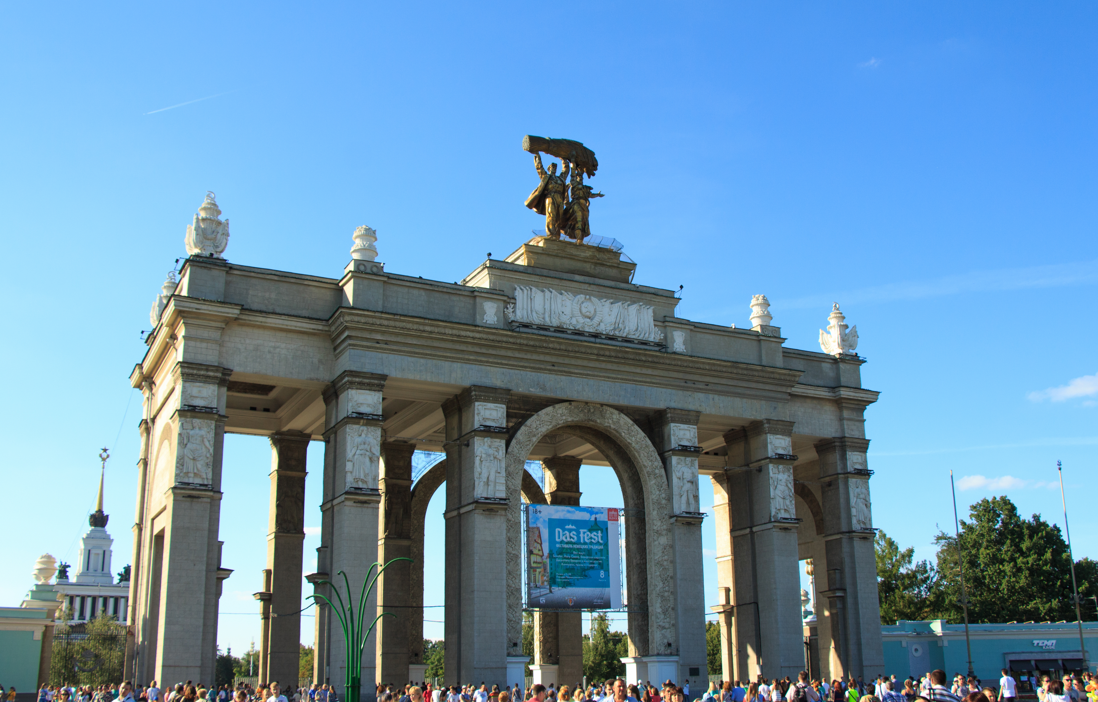 The gate of the main entrance to VDNKh. Moscow, Russia